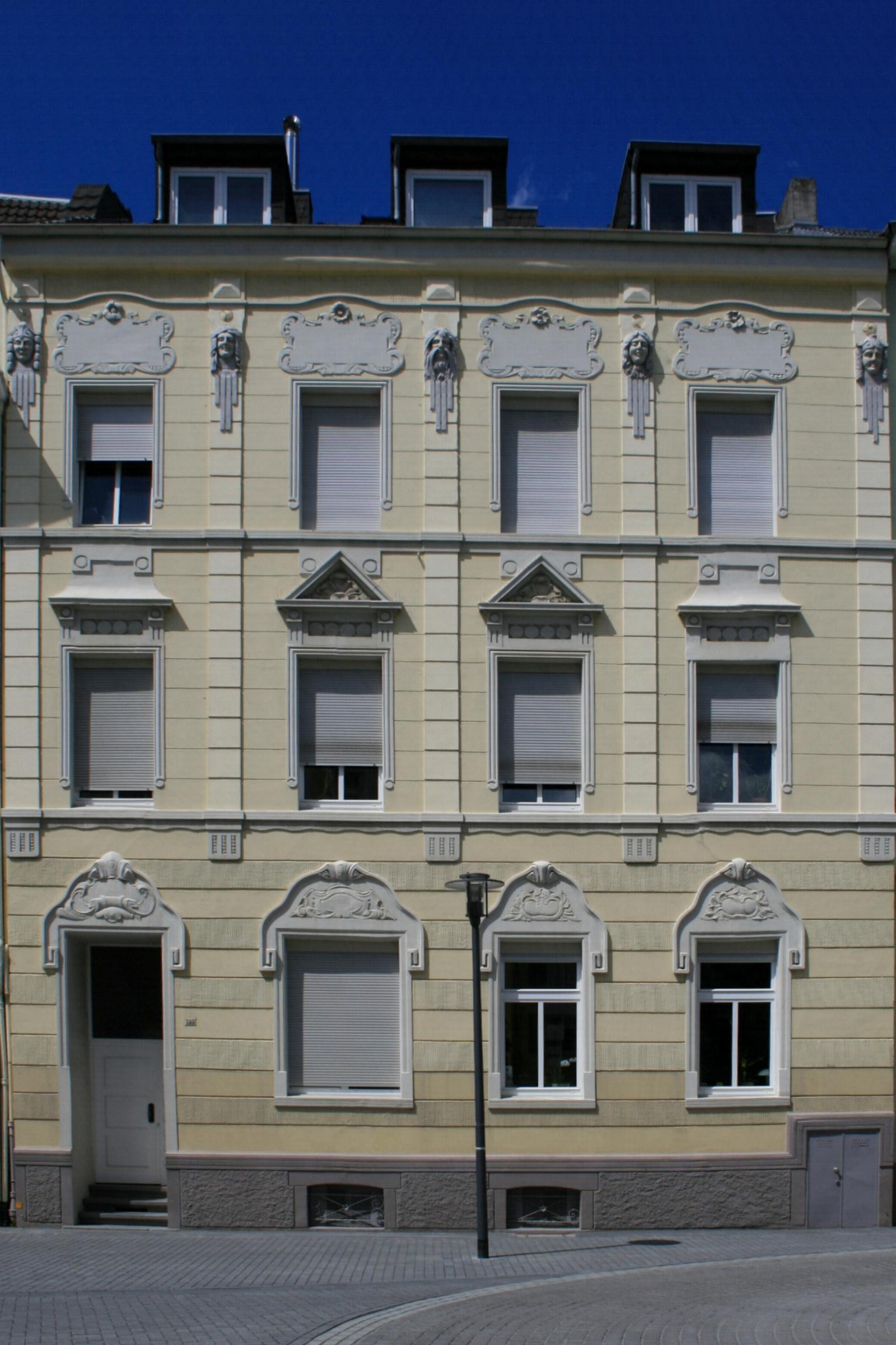 Cultural heritage monument No. E 021 in Mönchengladbach